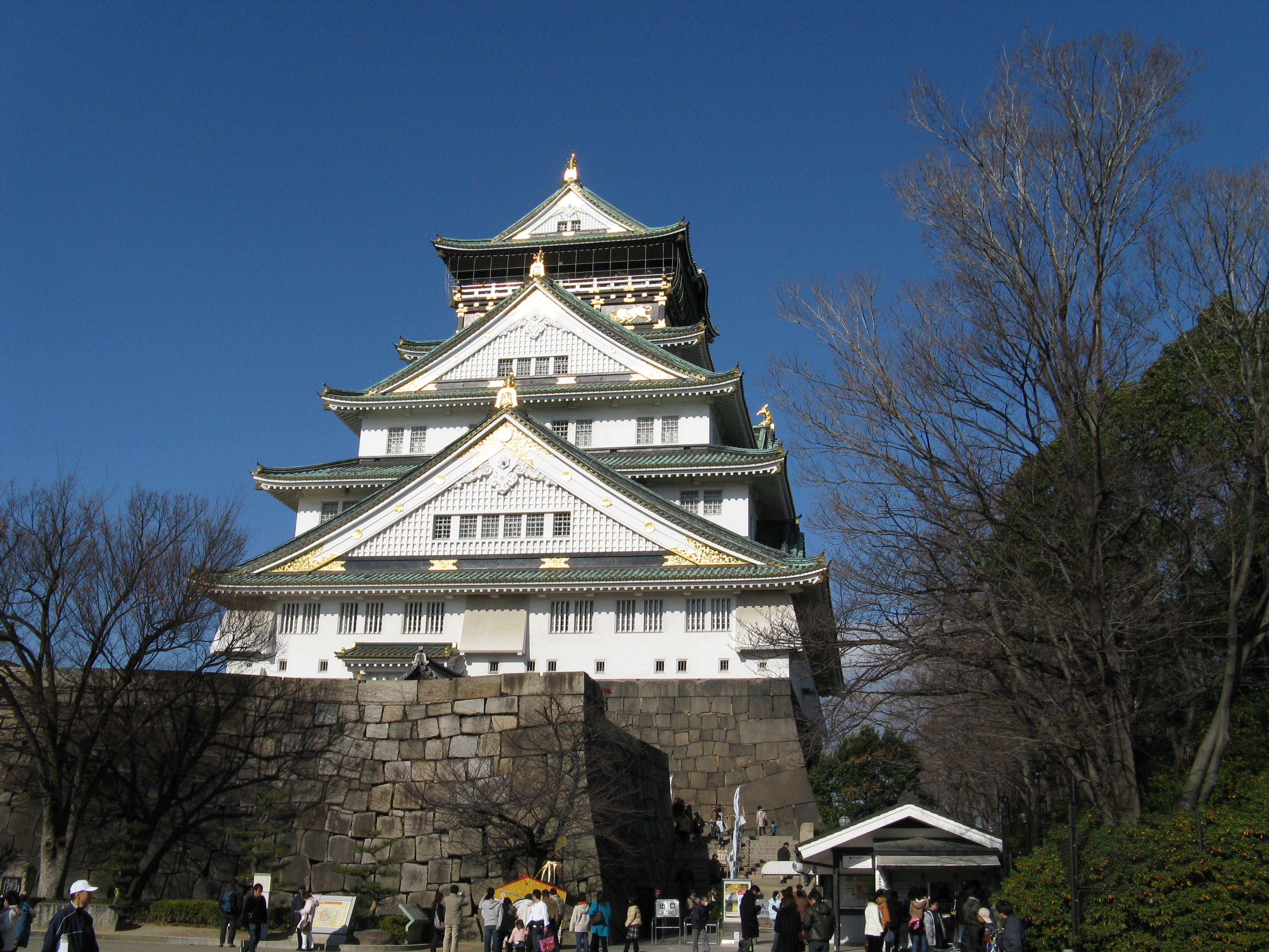 Osaka Castle (Ōsakajō).